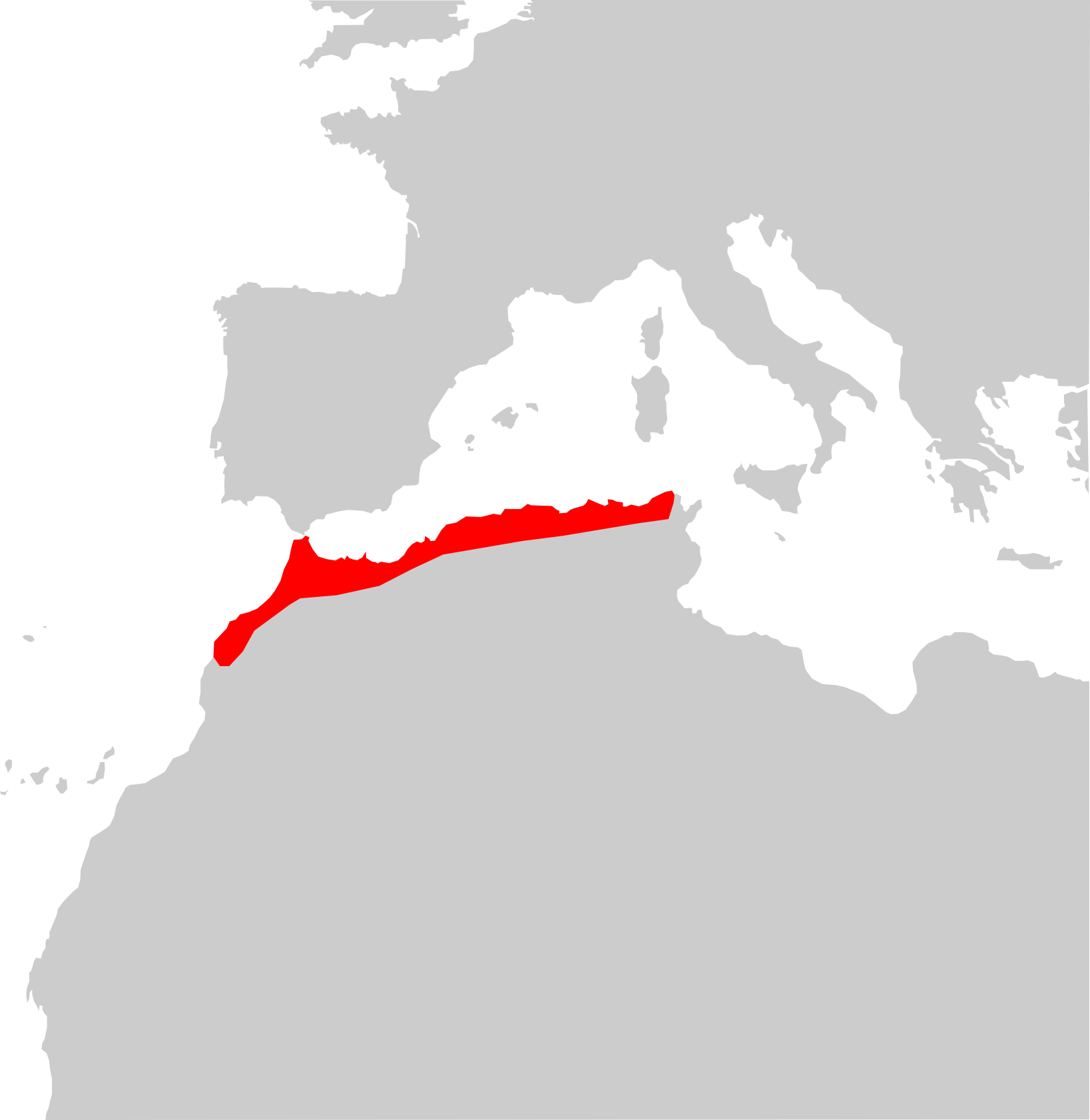 Trogonophis wiegmanni range map.